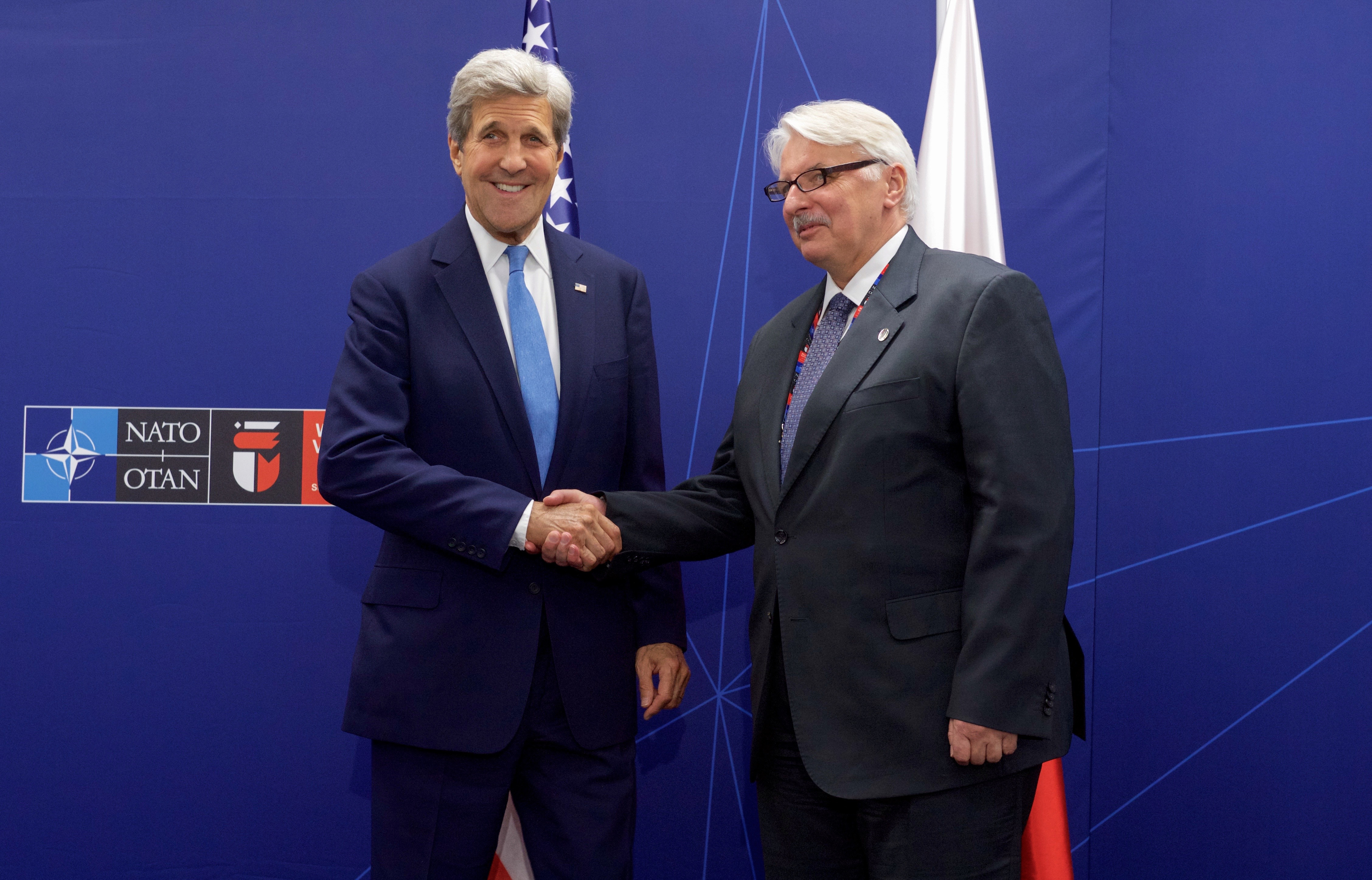 U.S. Secretary of State John Kerry shakes hands with Polish Foreign Minister Witold Waszczykowski on July 8, 2016, at the National Stadium in Warsaw, Poland, before a bilateral meeting on the sidelines of the NATO Summit. [State Department Photo/ Public Domain]